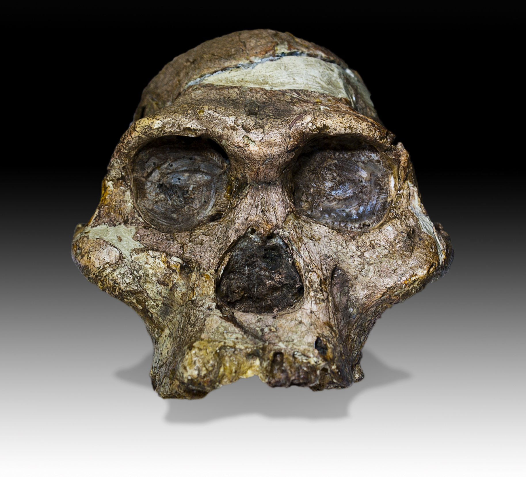 The original complete skull (without upper teeth and mandible) of a 2,1 million years old Australopithecus africanus specimen so-called "Mrs. Ples" (catalogue number STS 5, Sterkfontein cave, hominid fossil number 5), discovered in South Africa . Collection of the Transvaal Museum, Northern Flagship Institute, Pretoria, South Africa.